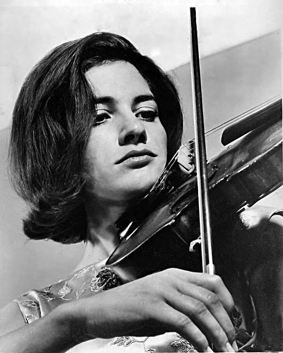 Original publicity photo of Edith Peinemann playing the violin